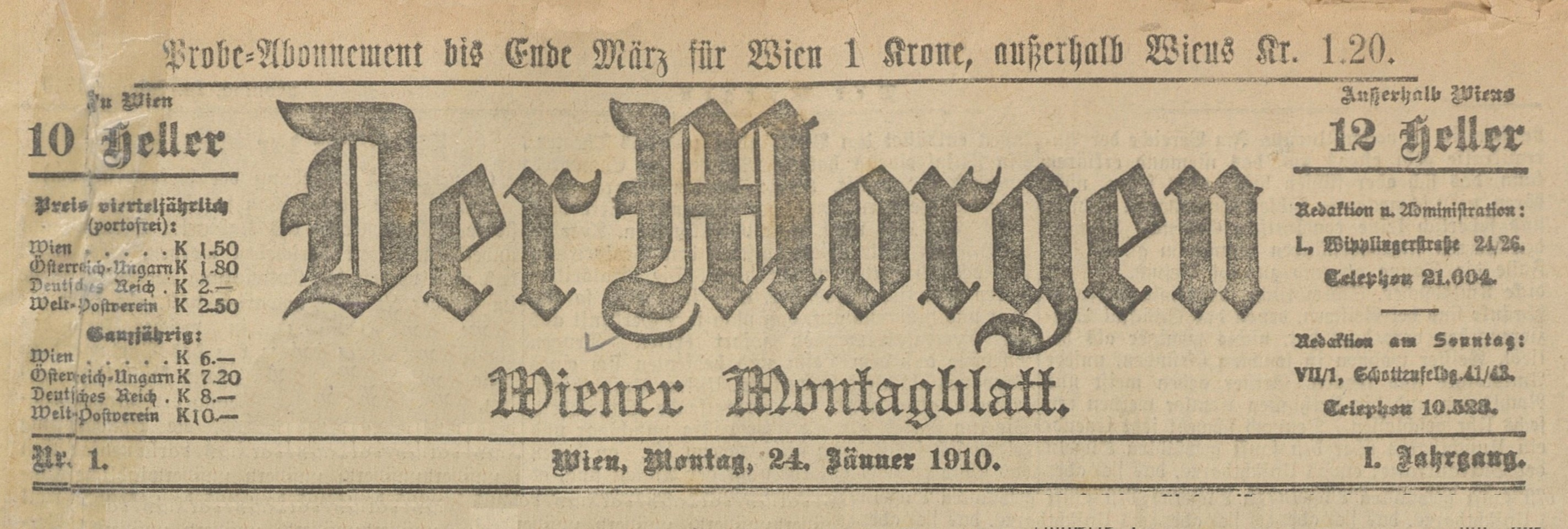 Header of the title page of the Viennese weekly newspaper Der Morgen. Wiener Montagblatt, published from 1910 to 1938.